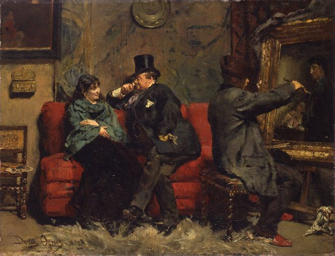 Bezoek in het atelier